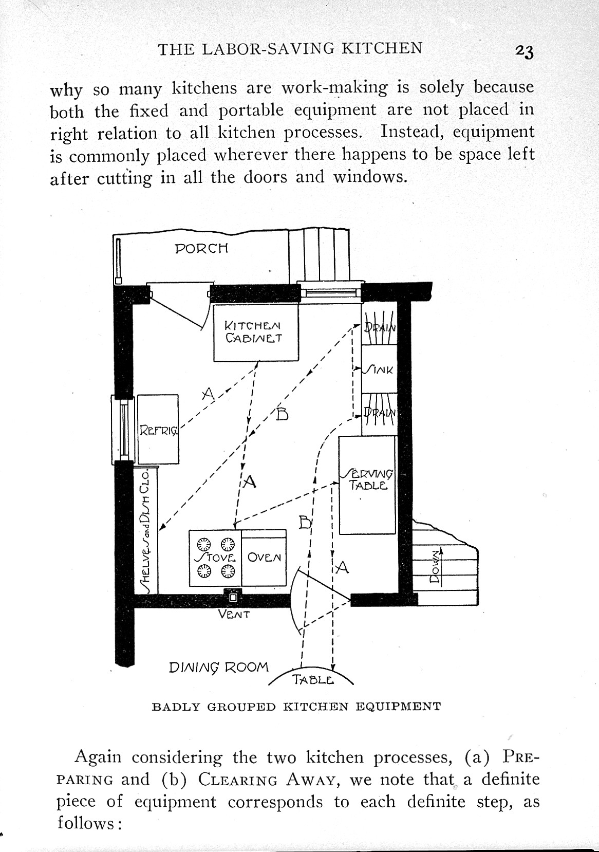 General Collections Keywords: home economics